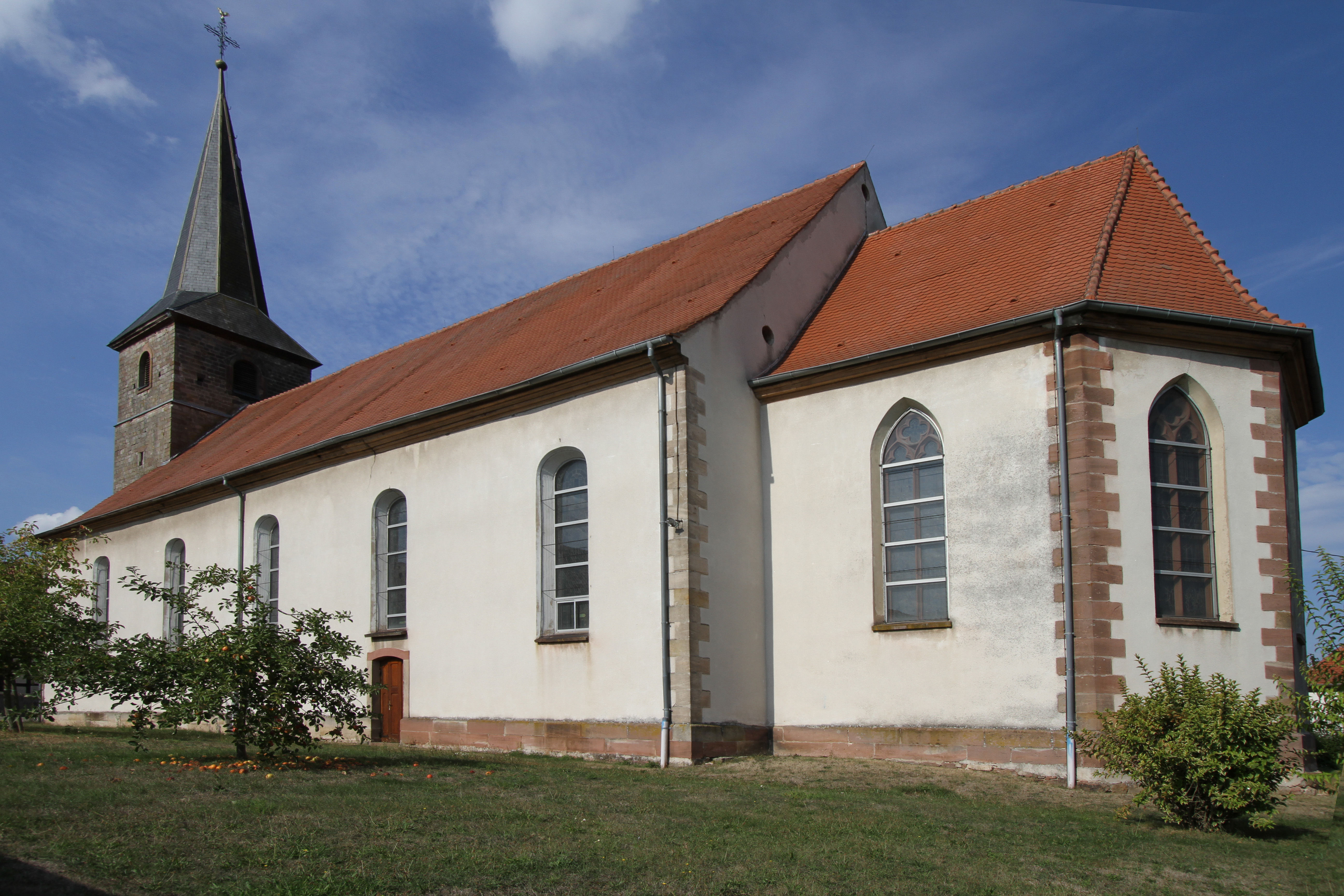 Church of Saint James in Riedseltz.